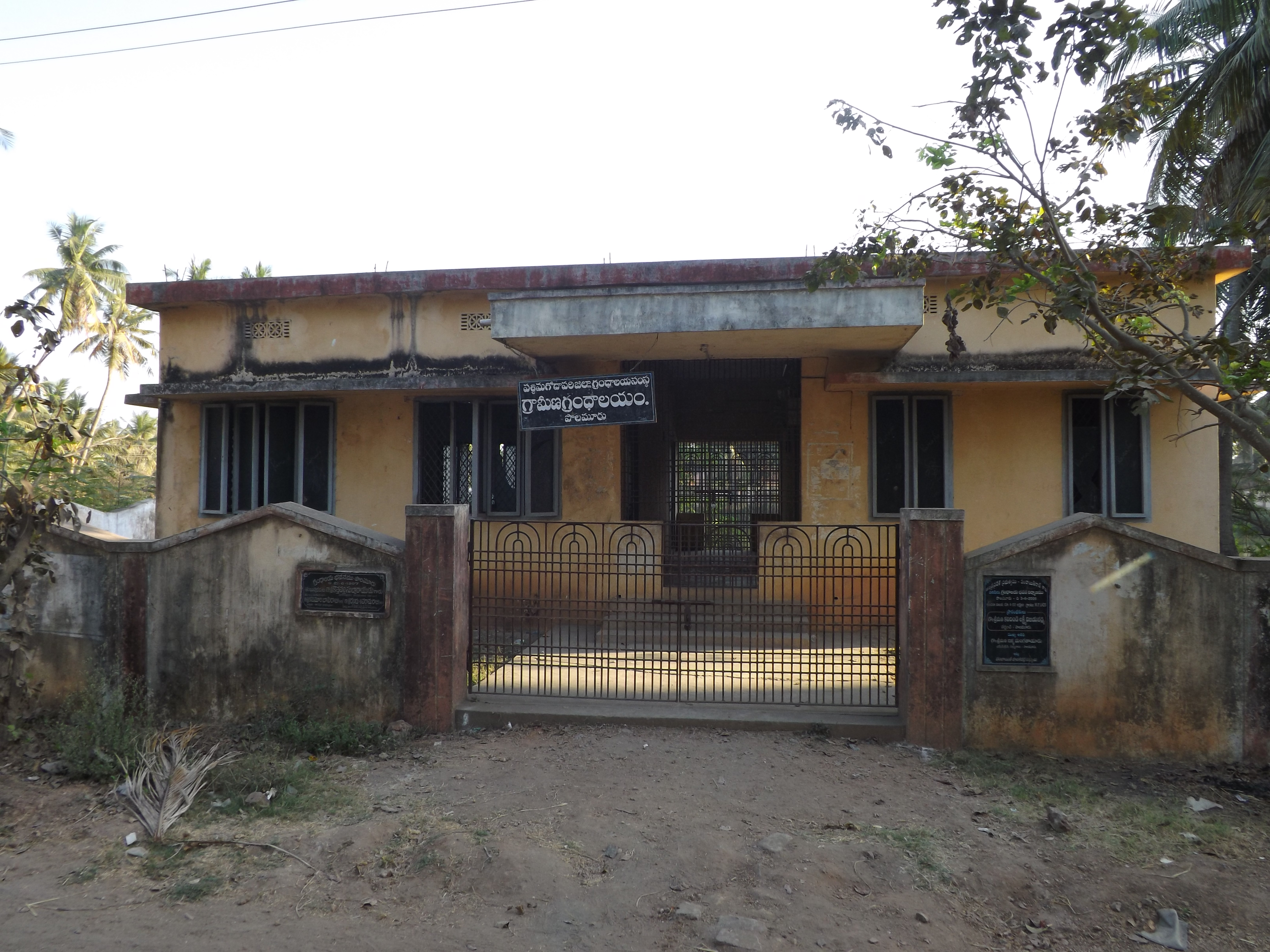 A.P. Village Polamooru Librery